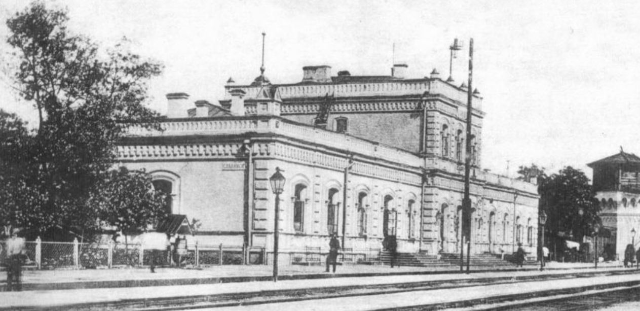 The first version of this file seems to be about Slawjansk-na-Kubani, which is another town. Besides, the picture at full size shows clearly that the current version is part of the same series as it can be found in Category:Postcards of Sloviansk (Ekaterinoslav Governorate)